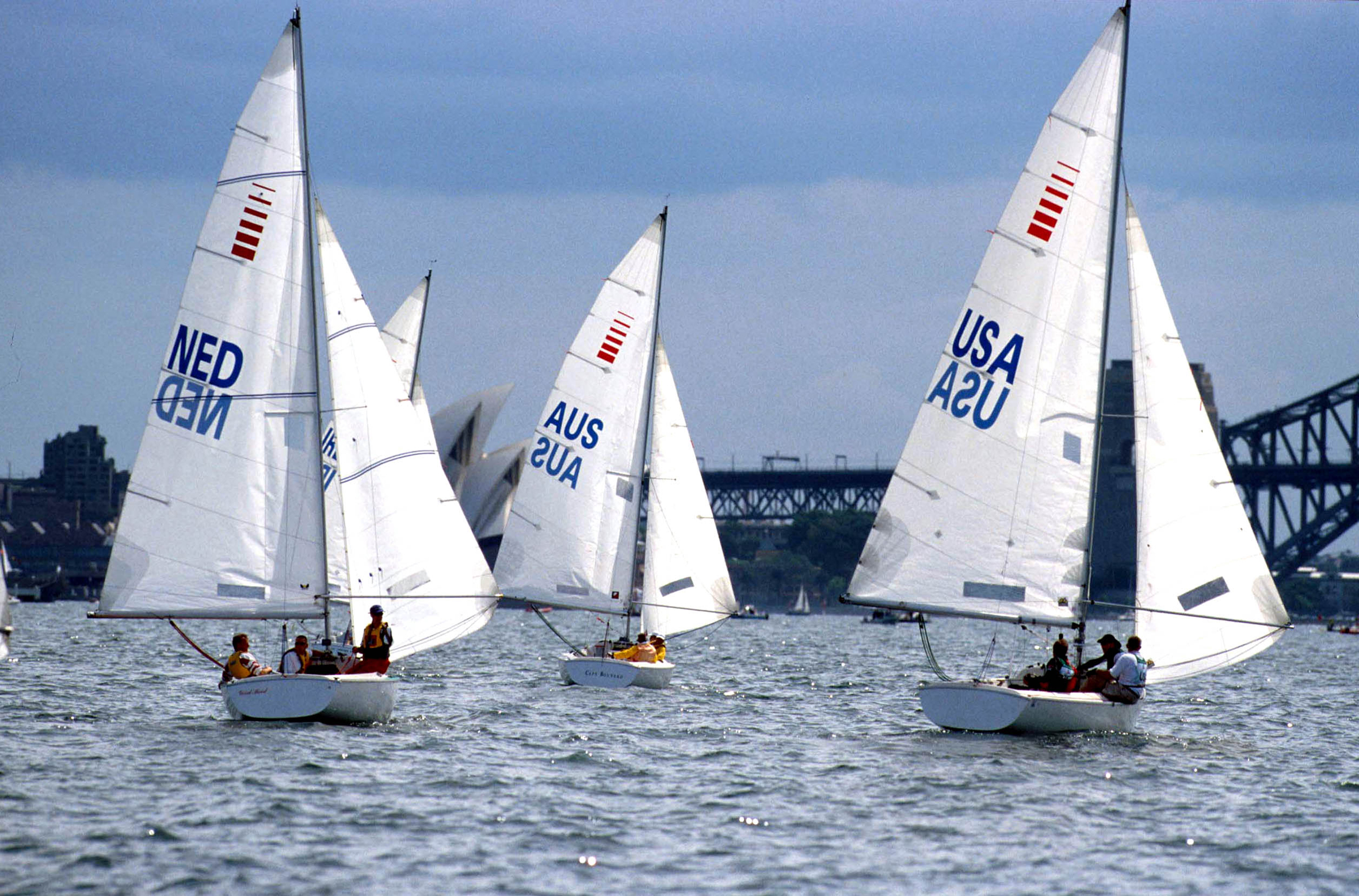 View of Sydney Harbour Bridge (right) during 2000 Sydney Paralympic Games sailing race in the Sydney Harbour. Sailing boats for the Netherlands, Australia and the United States of America are shown.